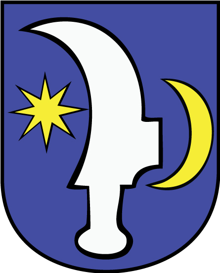 coat of arms vinné